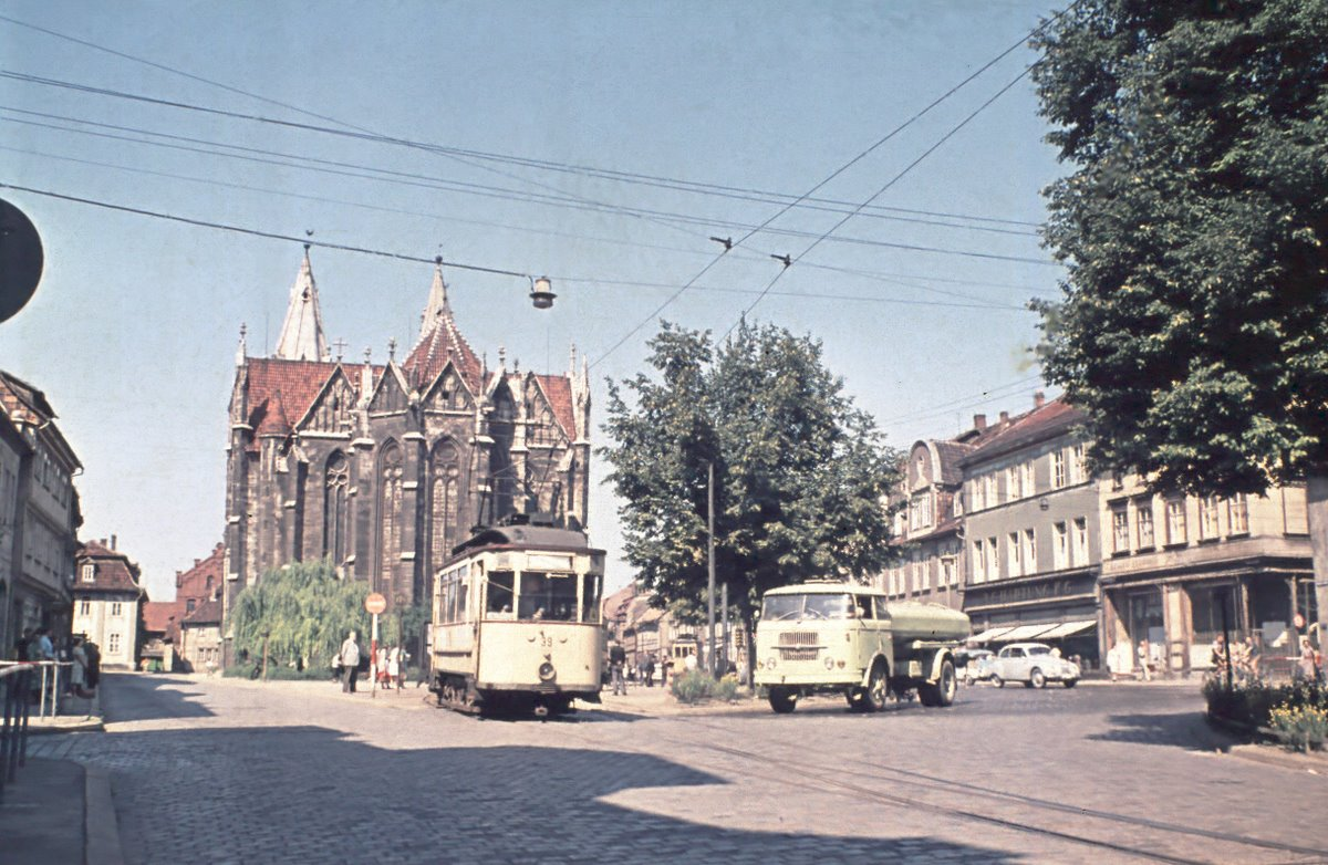 Mühlhäuser Tram on Untermarket 1959